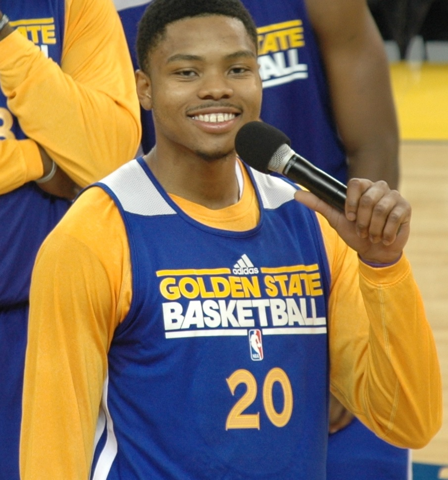 Kent Bazemore (undrafted pickup from summer league) takes his turn at the mic.